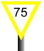 A Typical reduce route speed indication sign found on British railways. Image created by myself in Macromedia (now Adobe) Fireworks MX